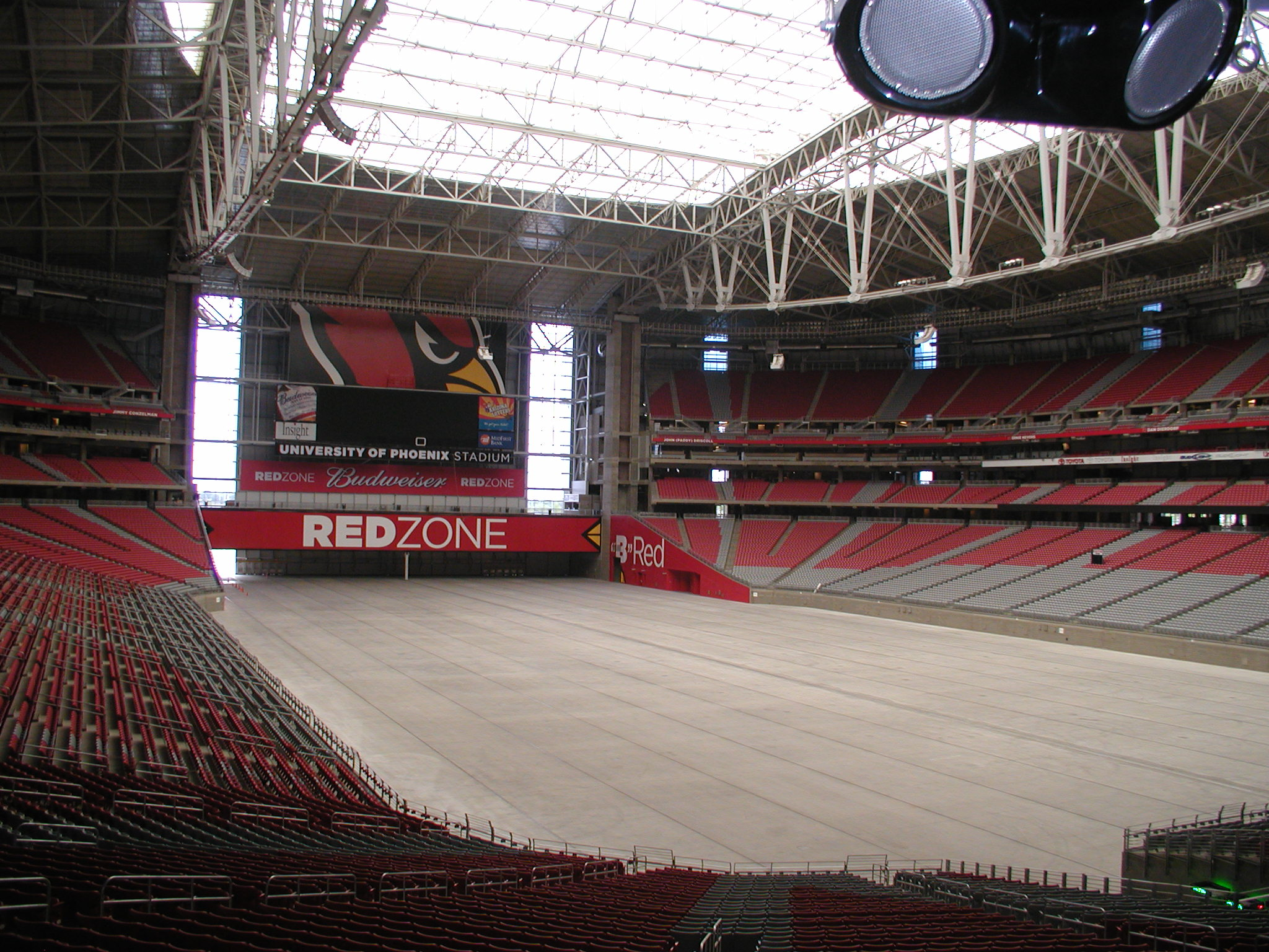 photo taken by user and is released into the public domain.